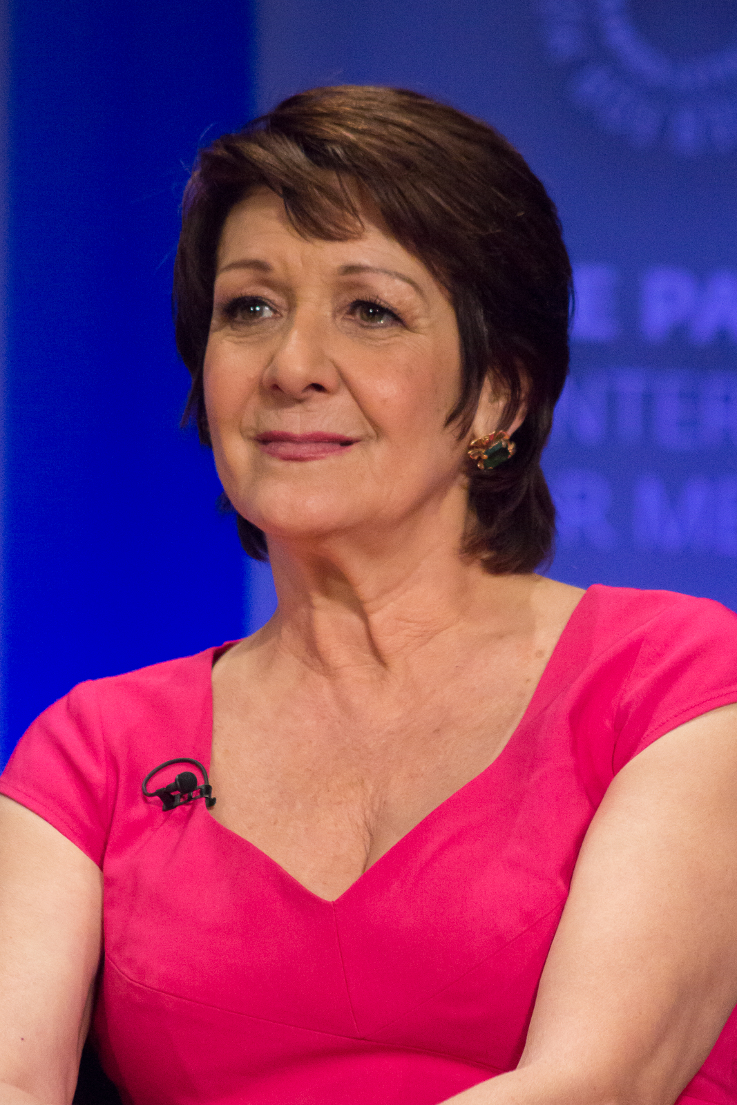 Actress Ivonne Coll at the 2015 PaleyFest presentation for the TV show "Jane the Virgin"